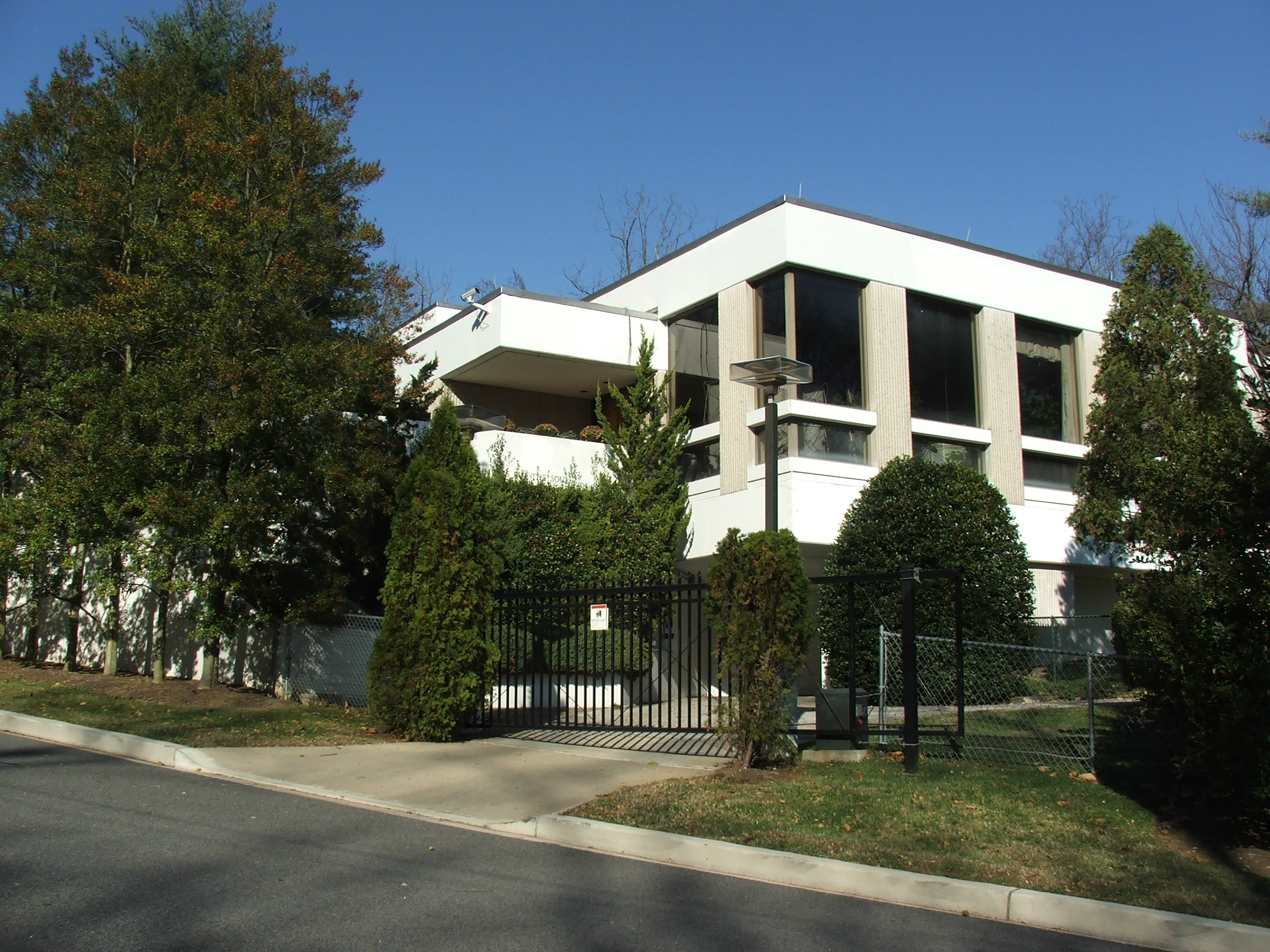 Embassy of Hungary in Washington, D.C. - United States.